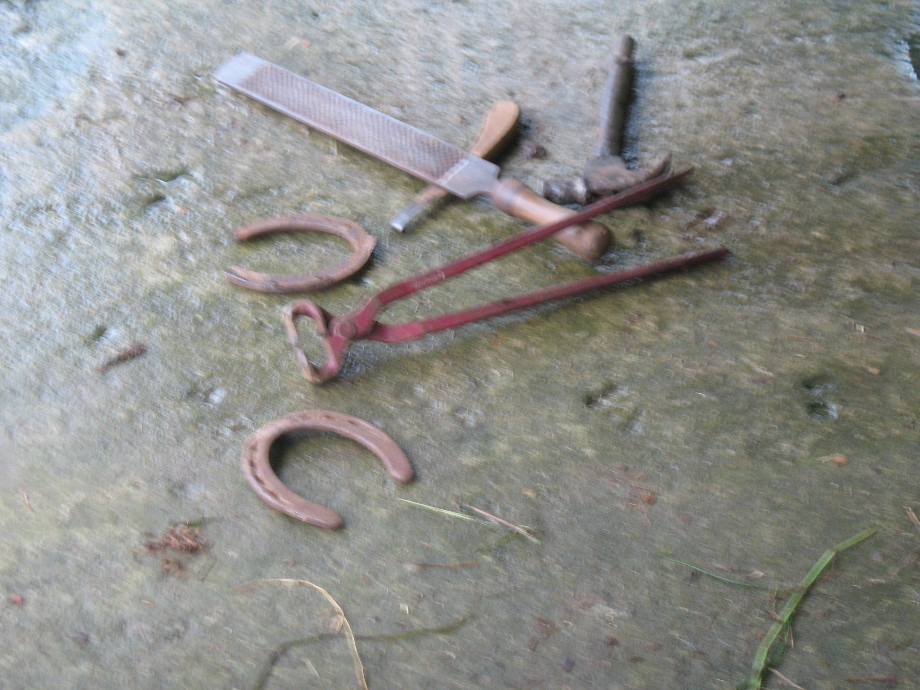 Photo of some farrier tools. Taken in Panama